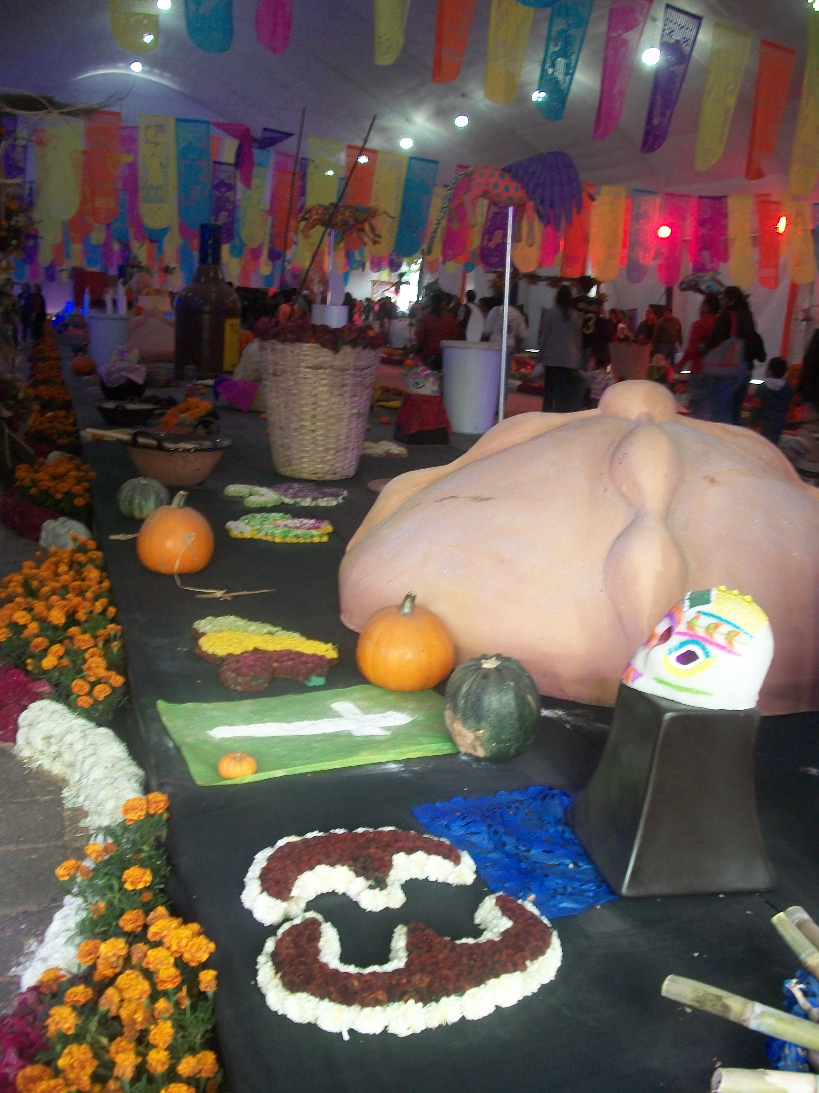 This photo has been taken in the center of Iztapalapa in a exhibition of Day of dead.